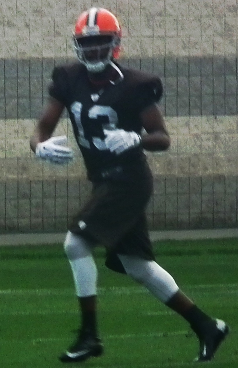 Rod Windsor